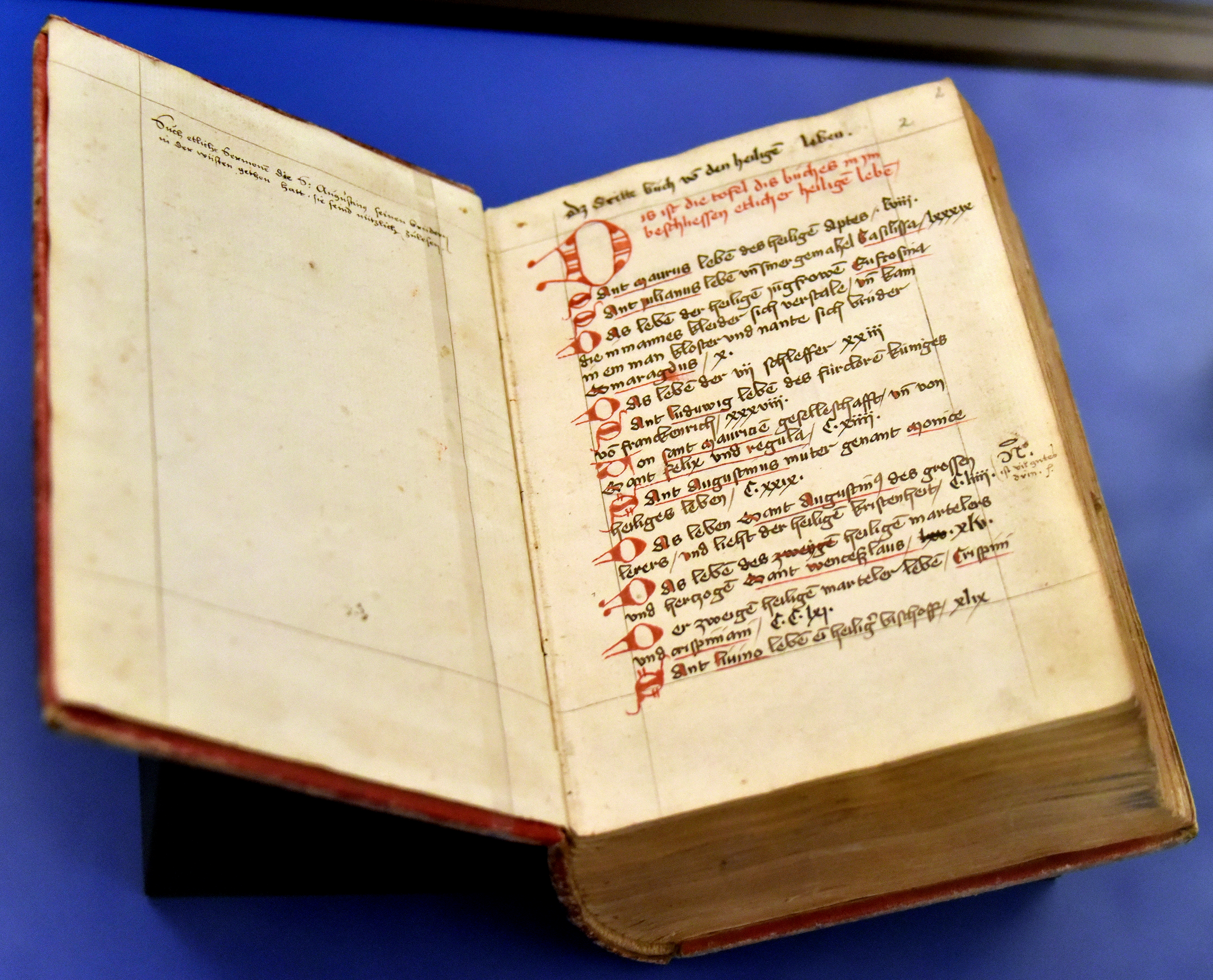 Famous German story of the collection "Life of the Saints", "Der Heiligen Leben", including the legend of "the Seven Sleepers", Band 3, 15th century CE, Germany. It was displayed at the Neues Museum in Berlin, Germany, Exhibition of "Cinderella, Sindbad & Sinuhe, Arab-German Storytelling Traditions", April 18, 2019, to August 18, 2019. Berlin State Library, Prussian cultural heritage, Manuscript Department (Staatsbibliothek zu Berlin, Preußischer Kulturbesitz, Handschriftenabteilung, Ms. germ. qu. 190).